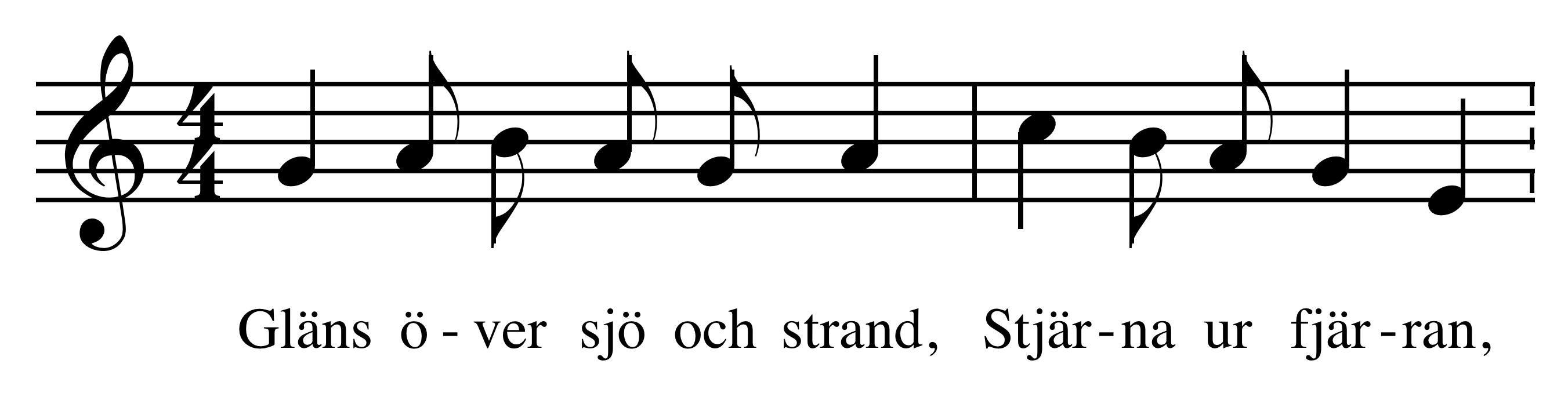 Gläns över sjö och strand (Lindberg)